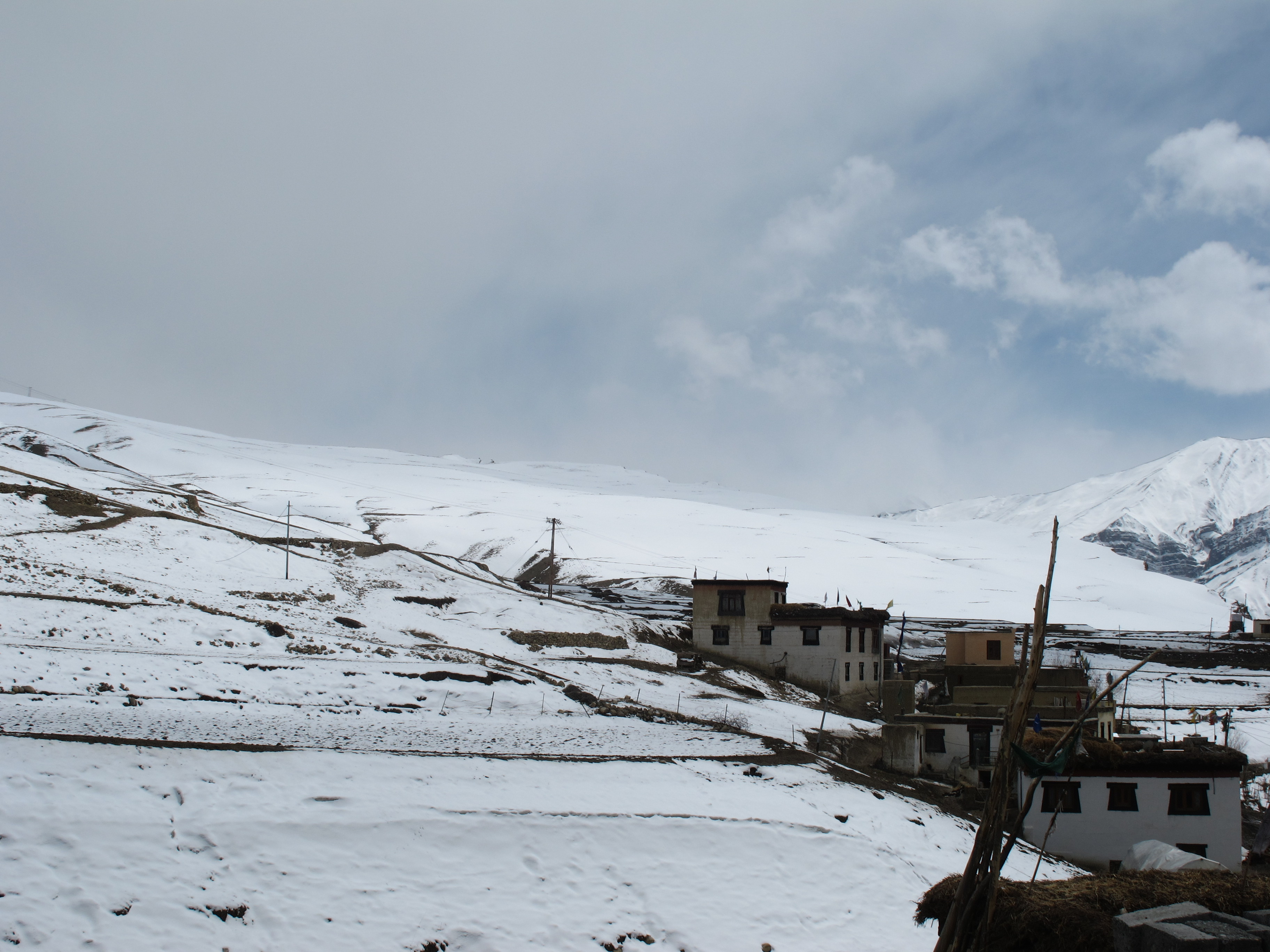 In the Month of April.